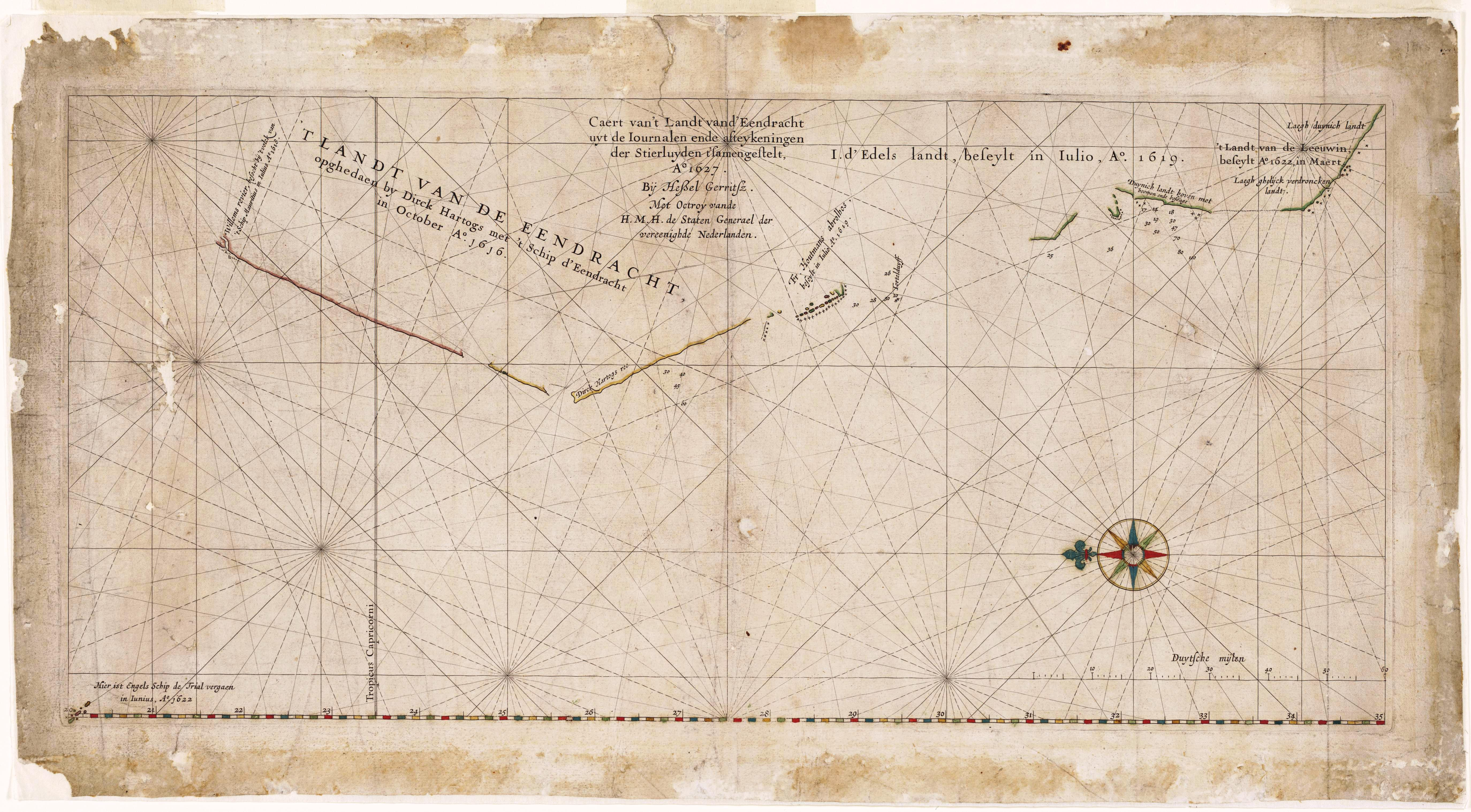 This is an image of Hessel Gerritszoon's 1627 map of the north west coast of Australia. The title is "Caert van't Landt van d'Eendracht" which translates as "Chart of the Land of Eendracht". It is so named because that part of the coast was first and foremost charted by Dirk Hartog in the Eendracht in 1616. This is a scan of the copy belonging to the National Library of Australia (NLA). It has been colour balanced.